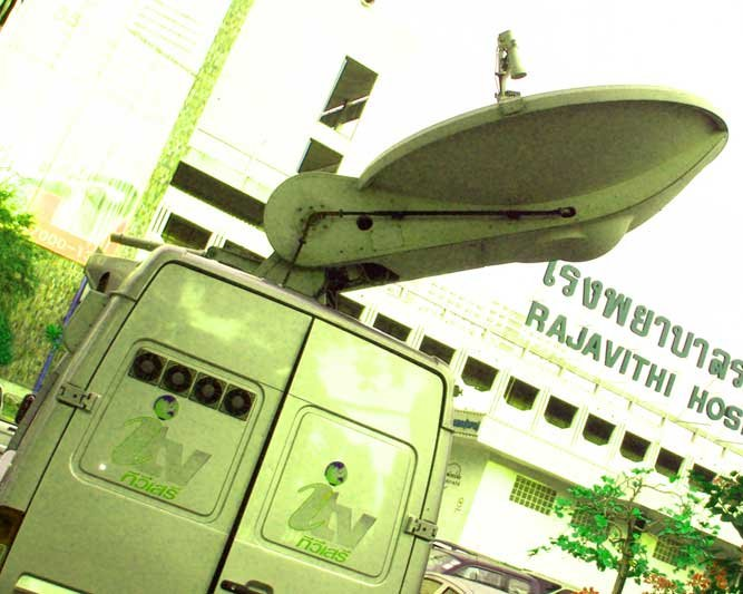 The ITV television channel providing complete coverage of the New Year blasts in Bangkok 2007. Pictured here is one of their broadcast vans parked inside the Rajavithee Hospital, where most of the victims of the blasts were treated. Image provided by Manik Sethisuwan 21:29, 3 February 2007 (UTC), The Sethisuwan Group, (January 2007).